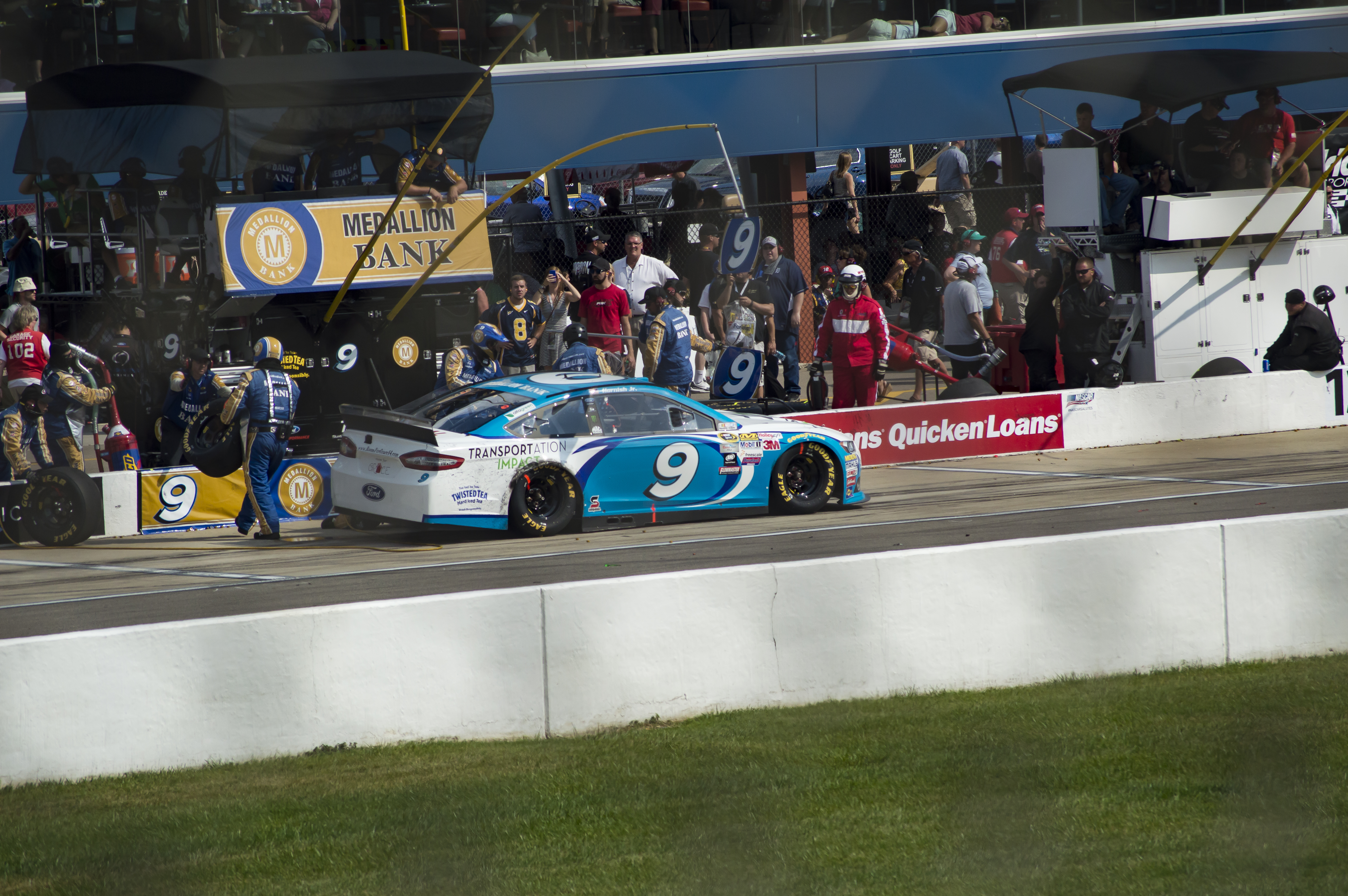 Sam Hornish Jr.'s No. 9 Transportation Impact Ford at Michigan International Speedway in 2015